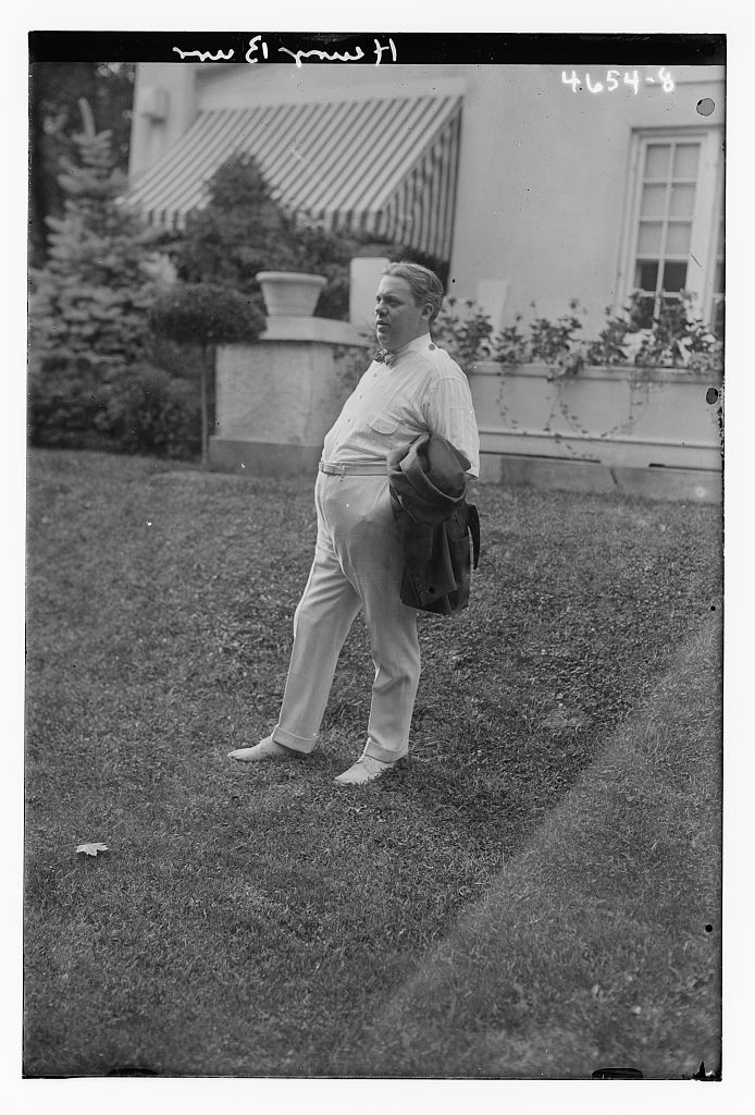 Henry Burr in 1918